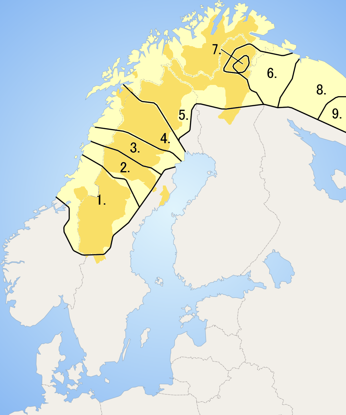 updated minor error new municipalities have gotten sami as an official language. image based on images which were originally based on this public domain image